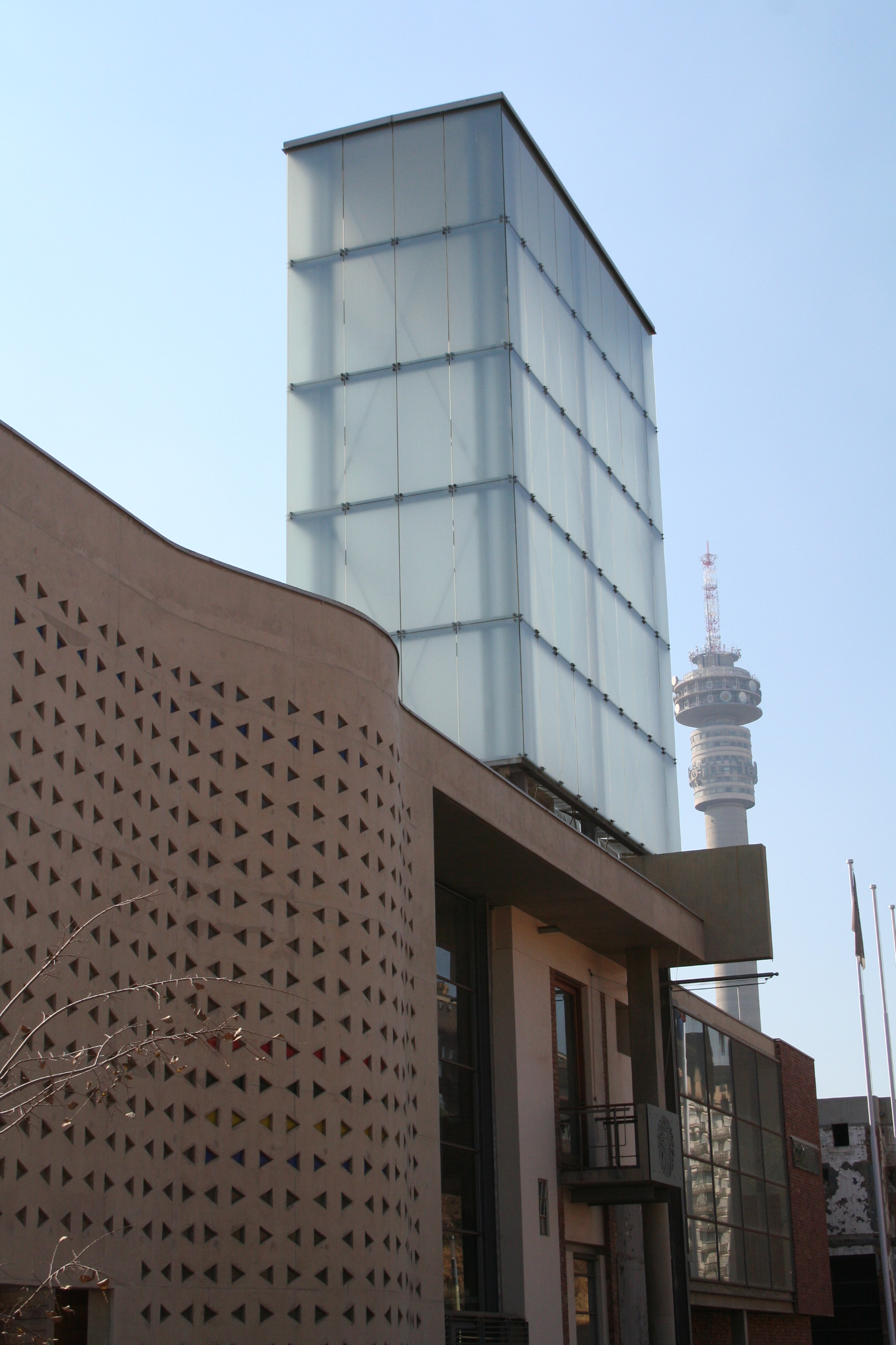 The Constitutional Court of South Africa at Constitution Hill, Braamfontein, Johannesburg.